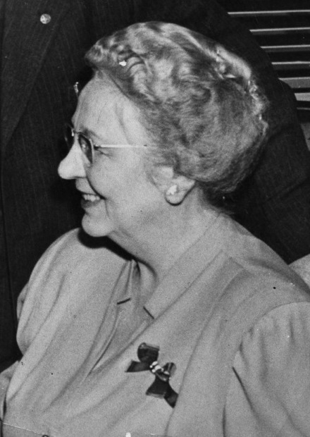 Mary Reeser "The Cinder Lady" (1884-1951) Suspected victim of Spontaneous Human Combustion